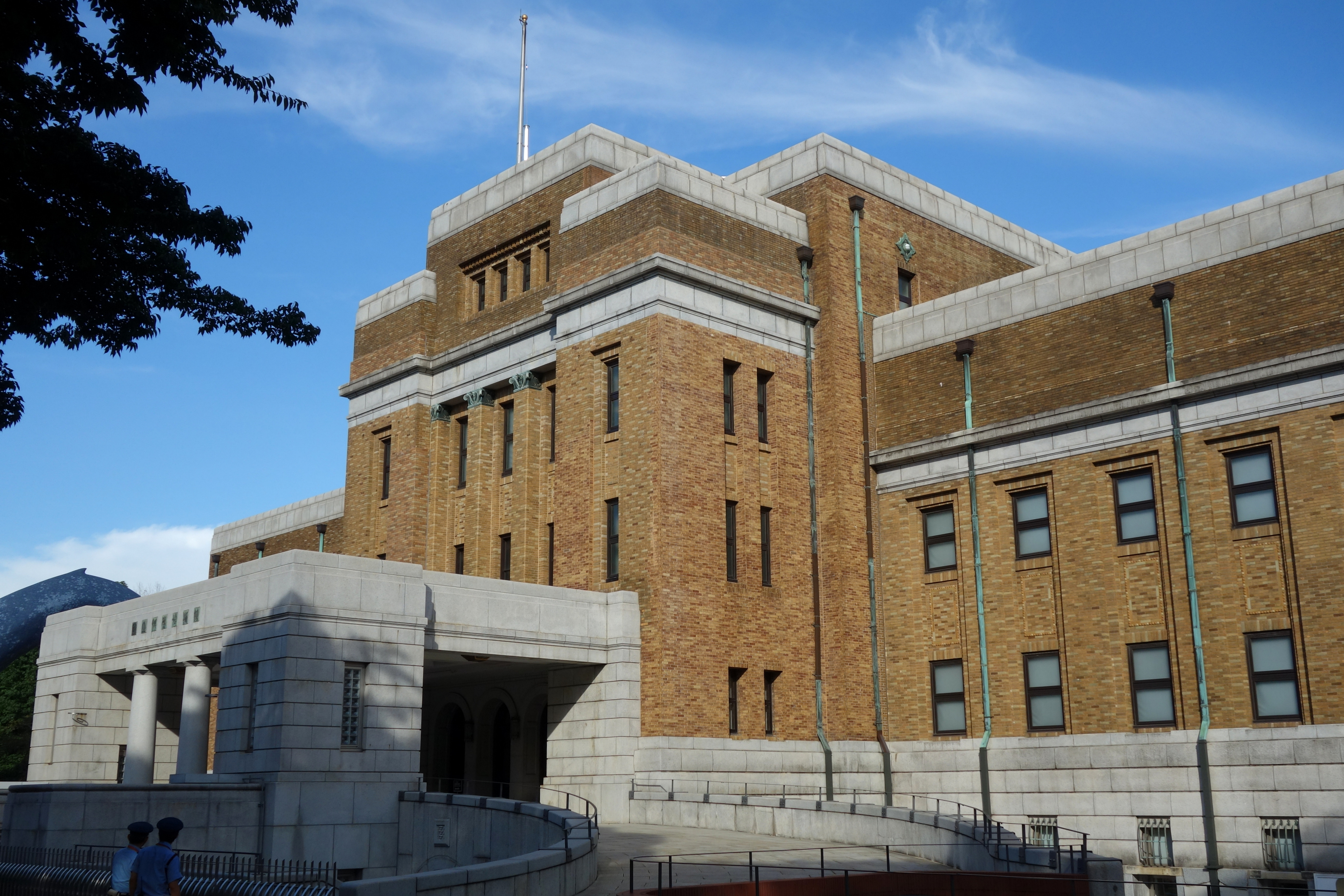 National Museum of Nature and Science, Tokyo, Japan.